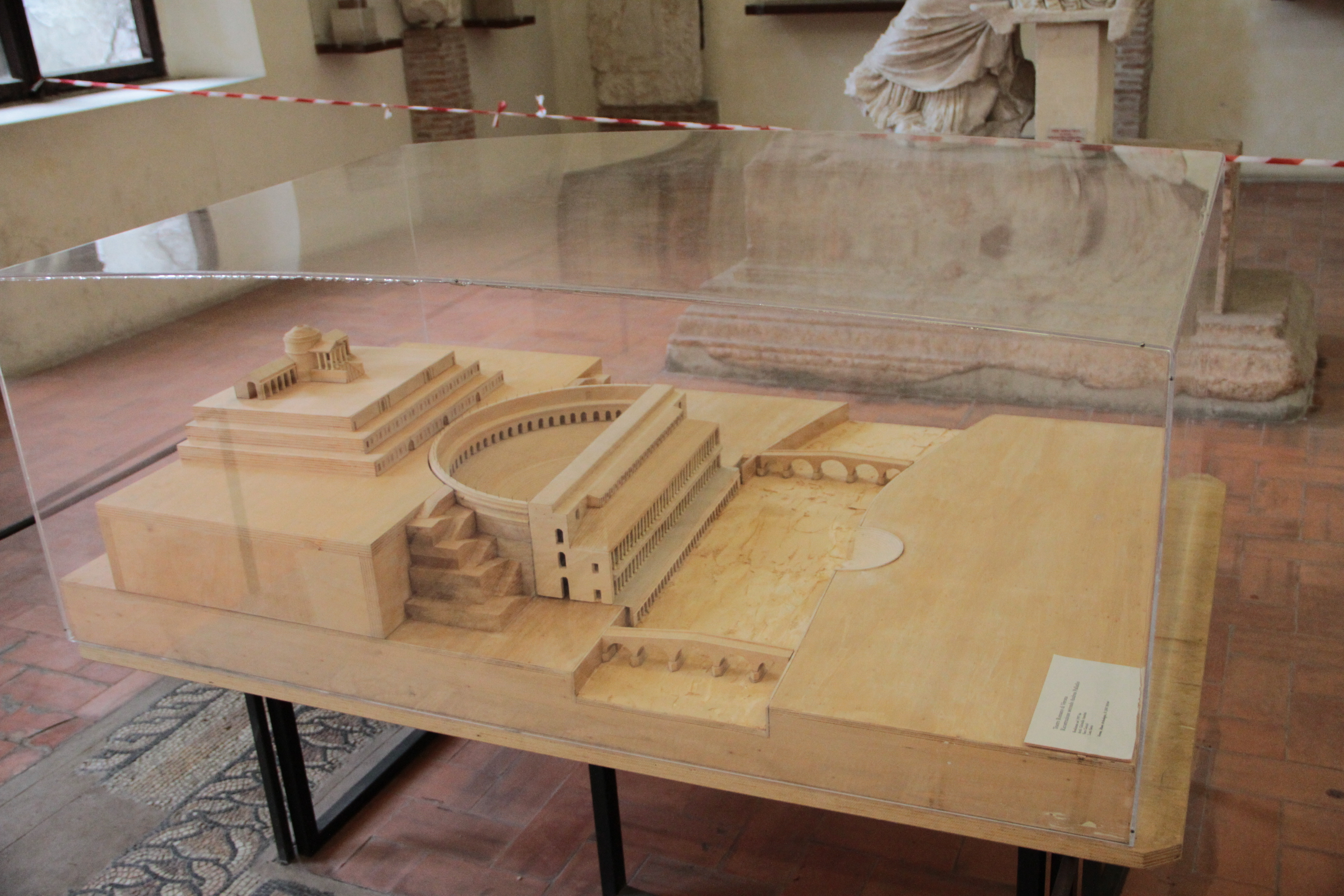 Ancient Roman theatre (Verona), a plastic model in Museo archeologico al teatro romano (Verona).